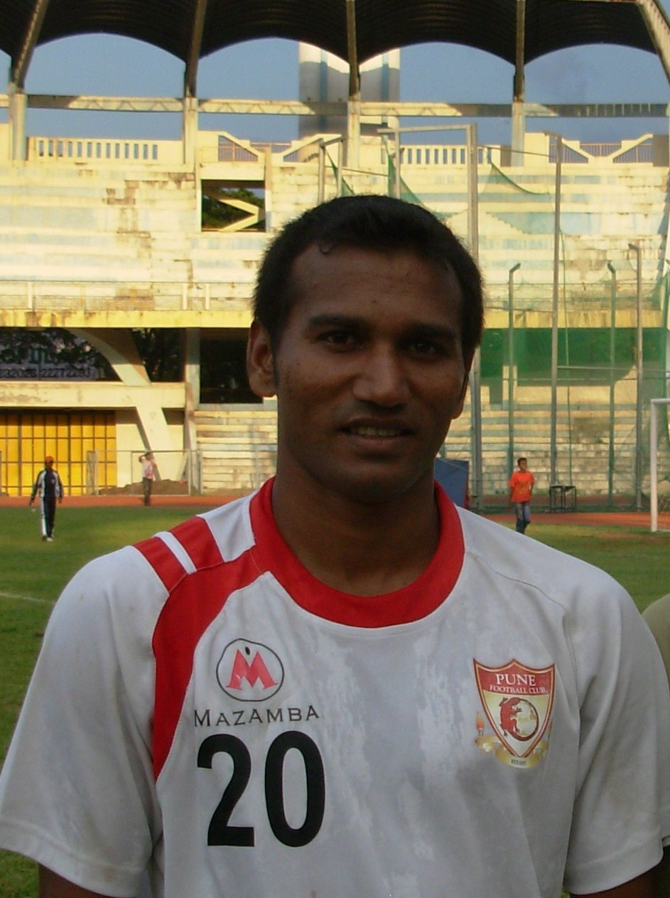 Paresh Shivalkar (born 1981) is an Indian football player. He is currently playing for Pune FC in the I-League in India as a Midfielder.